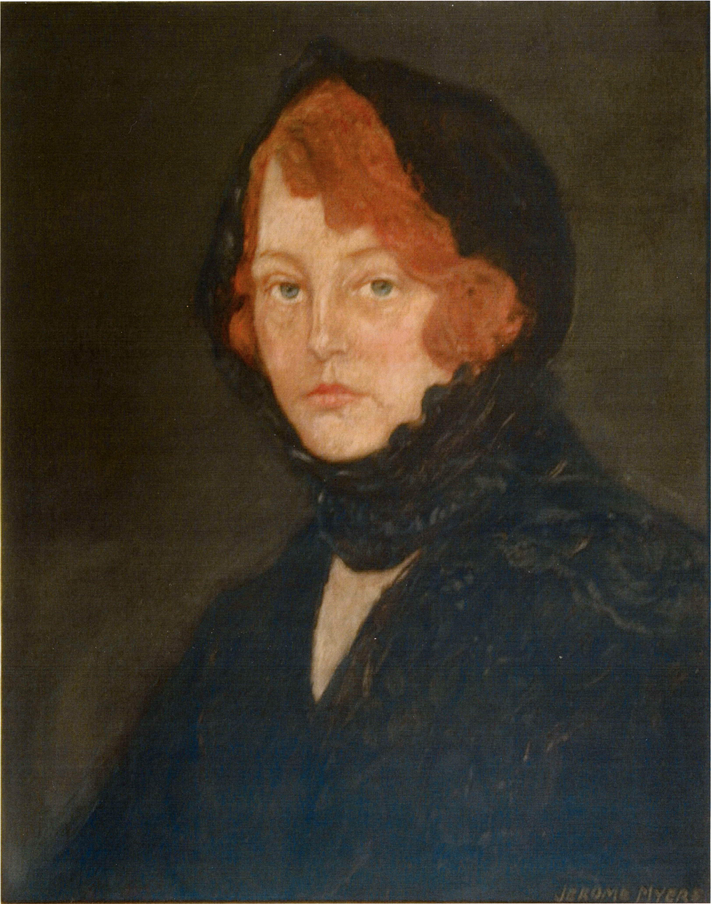 Portrait of Ethel, artist's wife